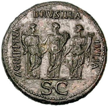 AGRIPPINA DRVSILLA IVLIA S C, Caligula's three sisters with the attributes of Securitas, Concordia, and Fortuna: Agrippina leaning on column, holding cornucopia, and placing left hand on Drusilla's shoulder; Drusilla holding patera and cornucopia; Iulia Livilla holding rudder and cornucopia.